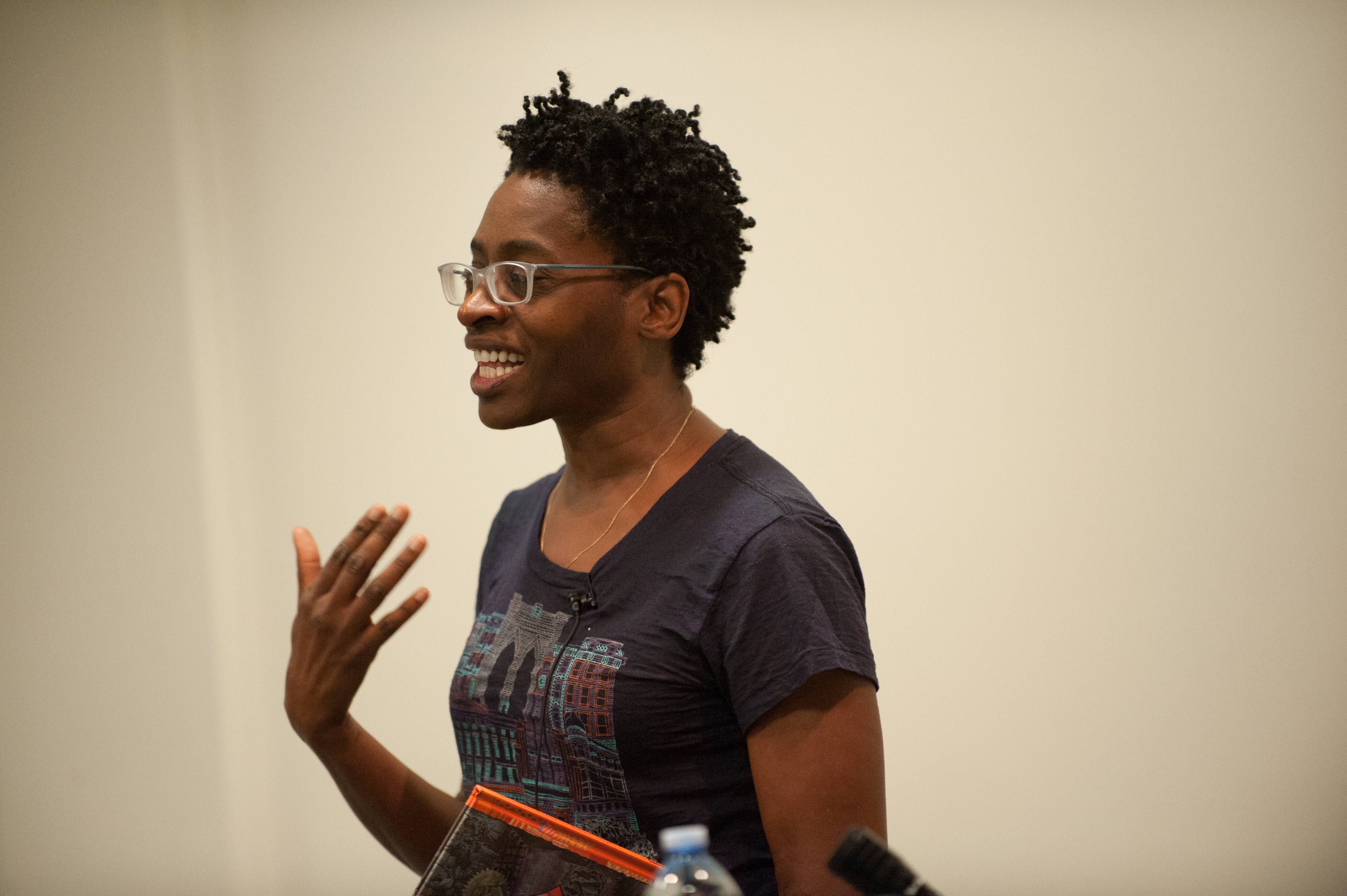 Jacqueline Woodson Author Visit: 11.5.15